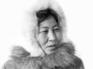 Russian/Dolgan poetess Ogdo Yegorovna Aksenova (real first name Evdokia)